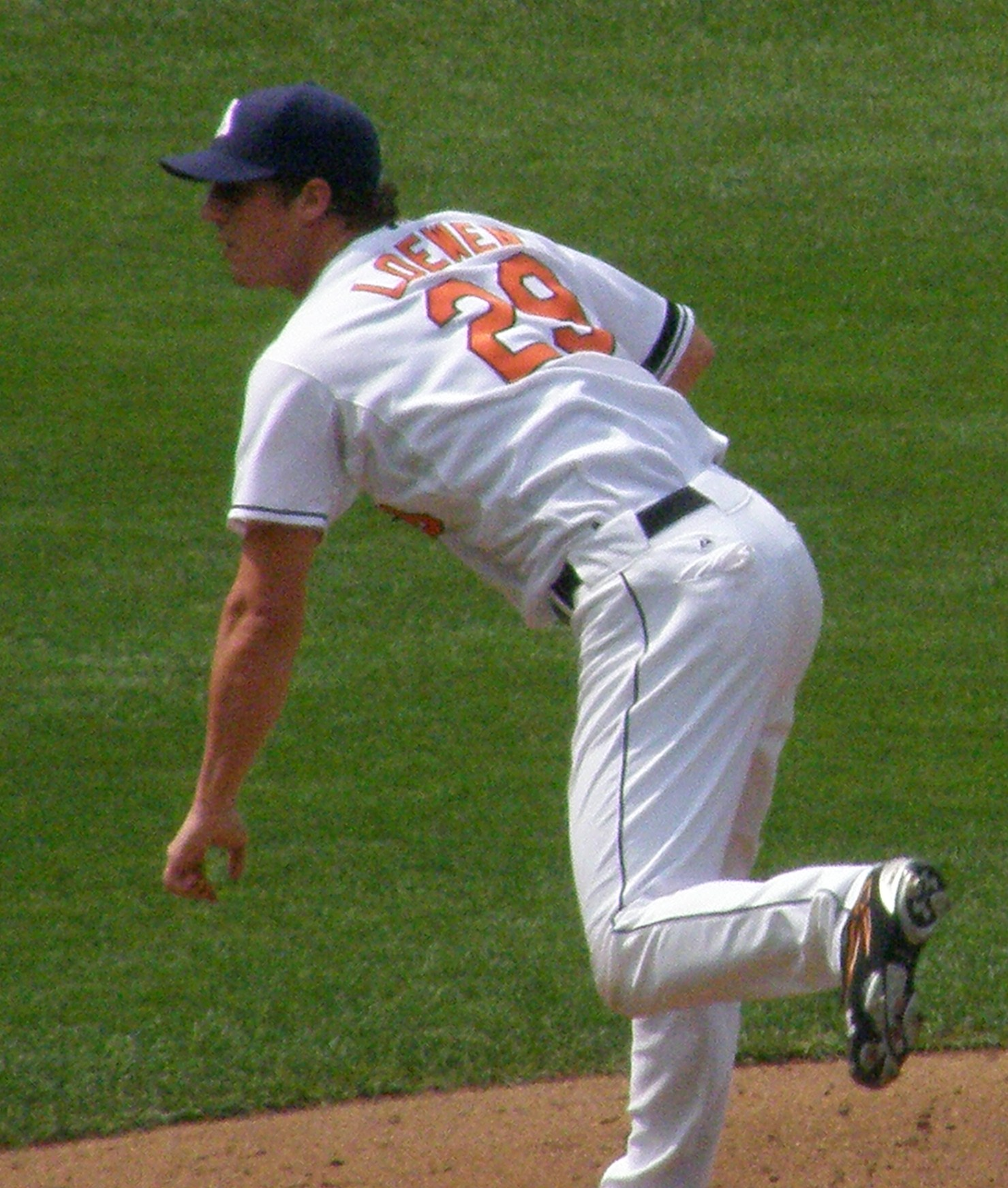 Adam Loewen throws a pitch against his final batter